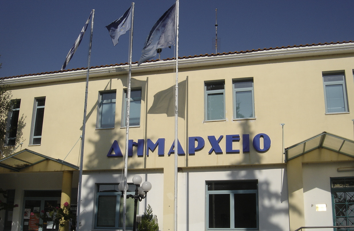 The cityhall of Makrigialos.